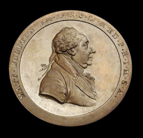 The medal's subject, Matthew Robinson Boulton (8 August 1770 – 16 May 1842) was the son of Matthew Boulton of England, the close friend and associate of James Watt. Text from the website states: "The powers of the Soho Mint. This interesting and rare medal was struck in 1803 by Matthew Boulton to provide information to the French about the progress the mint had made over the years, and the improvements that had been installed [in his Soho manufactory site].... The medal is struck in French. Being an original striking, this medal was most likely put aside by Matthew Boulton. This medal was put aside by the Boulton's agent Tim Millett in 2002, and purchased from him in 2004. Original striking, 43 mm. BHM 462. Ex: Matthew Robinson Boulton. Courtesy Bill McKivor Collection."